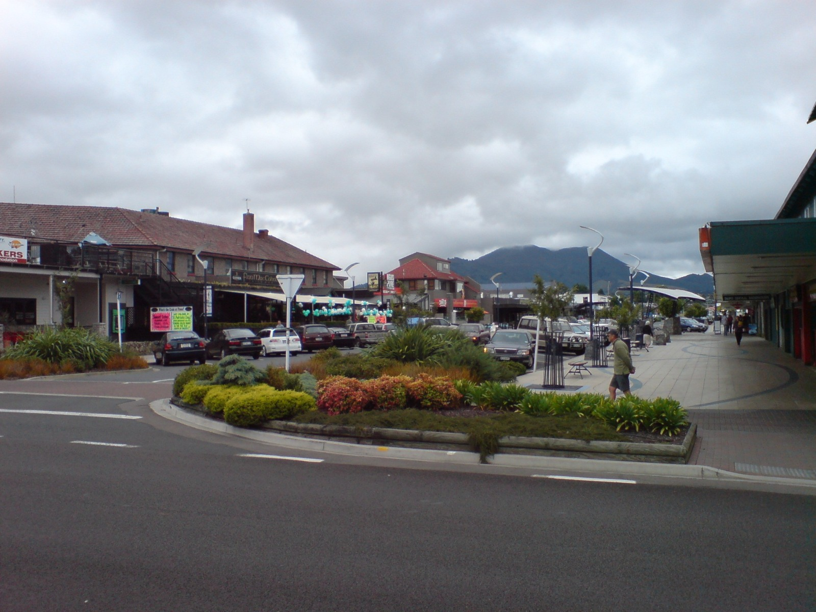 One of the main streets of the Taupo CBD, New Zealand, hinting at the nature of the town as a tourist centre. Looking northeast.